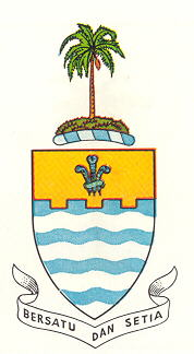 Original coat of arms of Penang